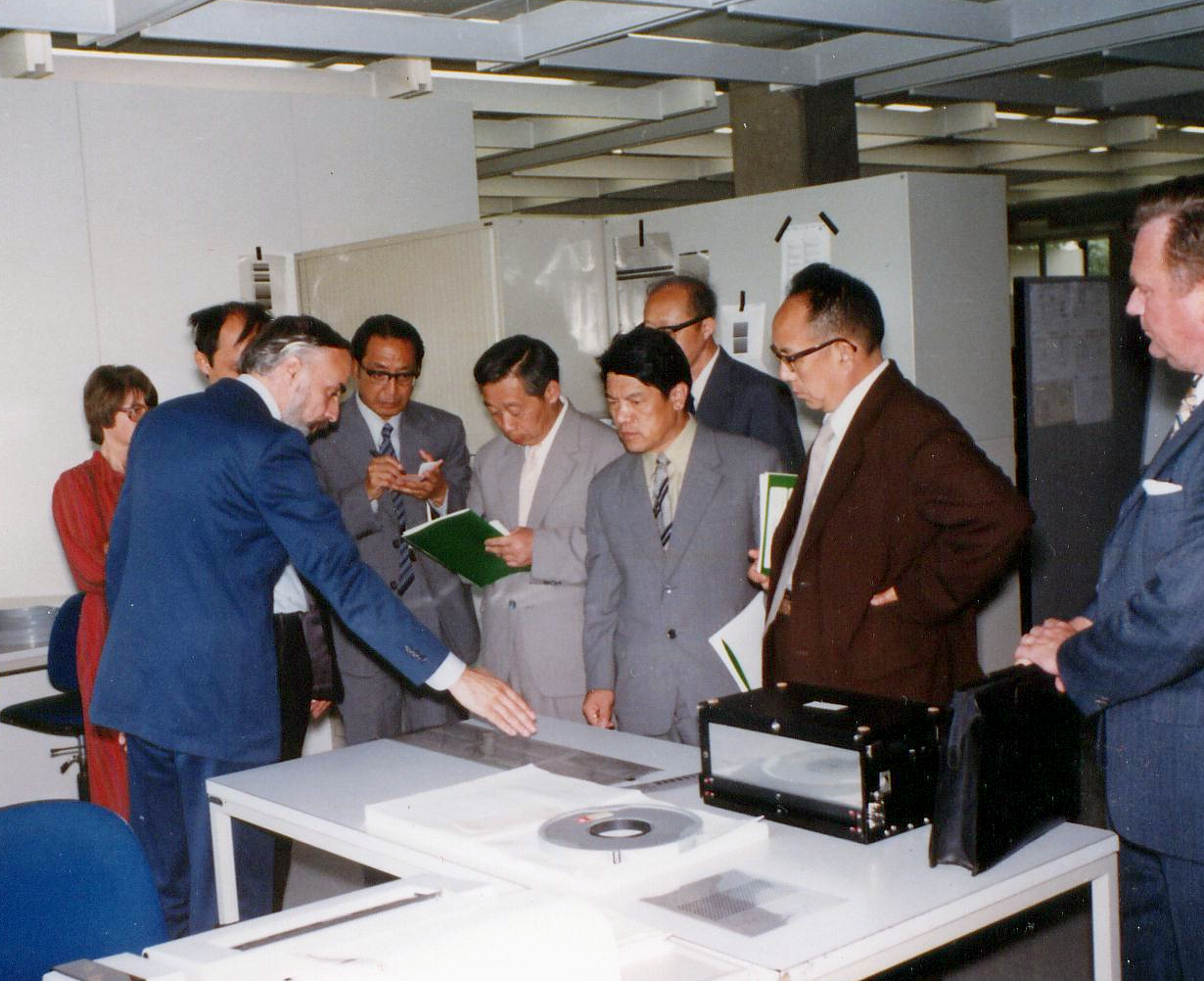 Interested visitors from the National University, Taiwan in the data center of the ZMD